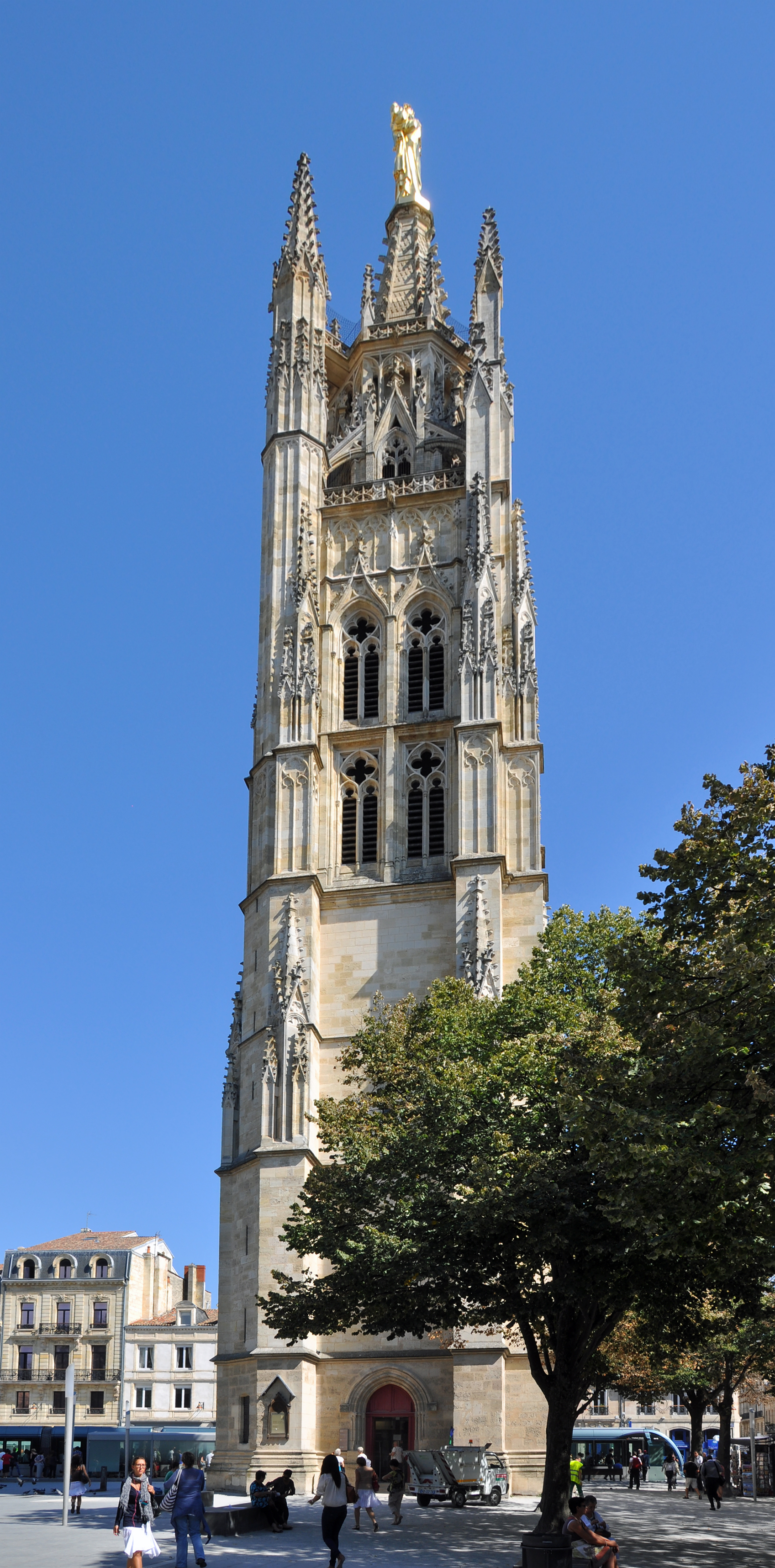 Bordeaux (France): the Tour Pey Berland